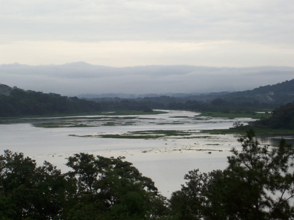 View of the Chagres River in Gamboa, Panama.